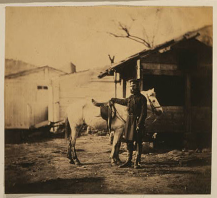 Colonel Gerald Littlehales Goodlake of the British Army, along with his horse. Goodlake subsequently earned the Victoria Cross and rose to the rank of Lieutenant General.